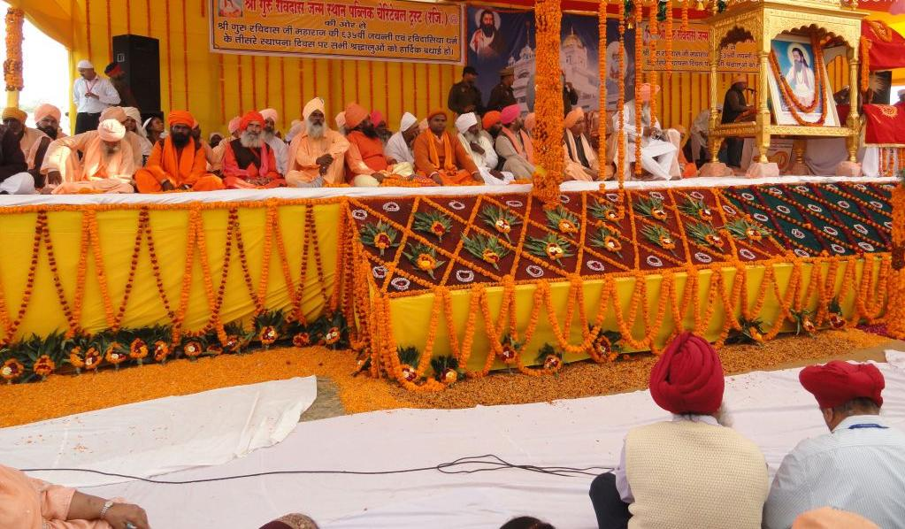 Sant Samaj at 635th Birth Anniversary of Guru Ravidass ji at Sri Guru Ravidass Public Charitable Trust, Varanasi